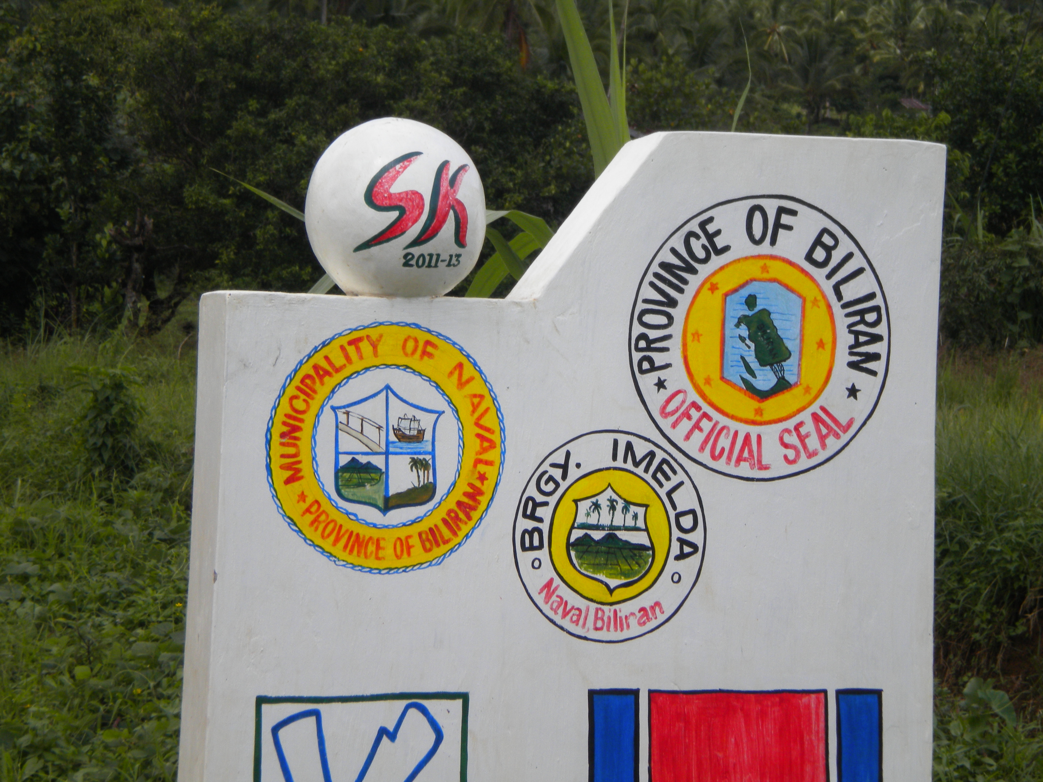 This is a picture I took in the Summer of 2012 when I visited the Island of Biliran and went to the Barangay of Imelda. This sign is situated towards the middle of the village.